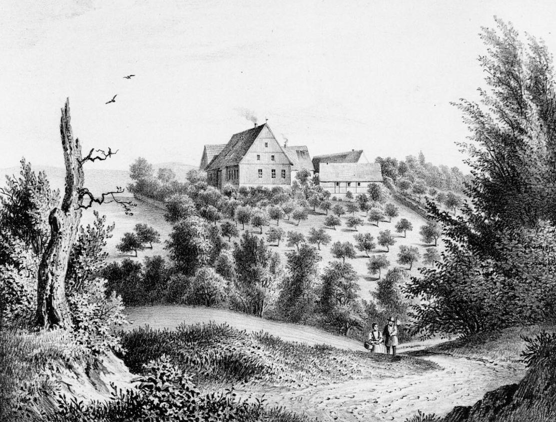 Rittergut Alberoda, Aue, Saxony.